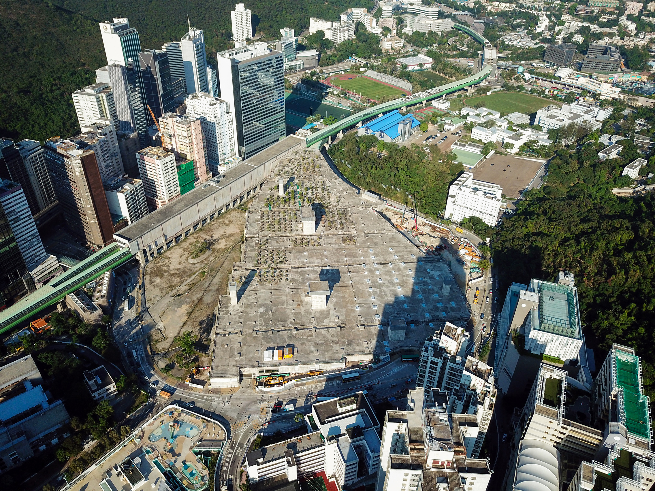 Wong Chuk Hang Station Property Development Site